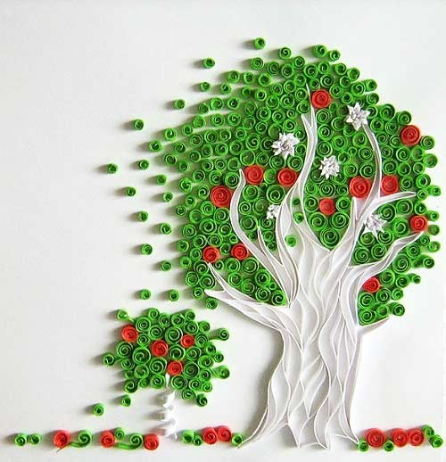 Paper quilling tree